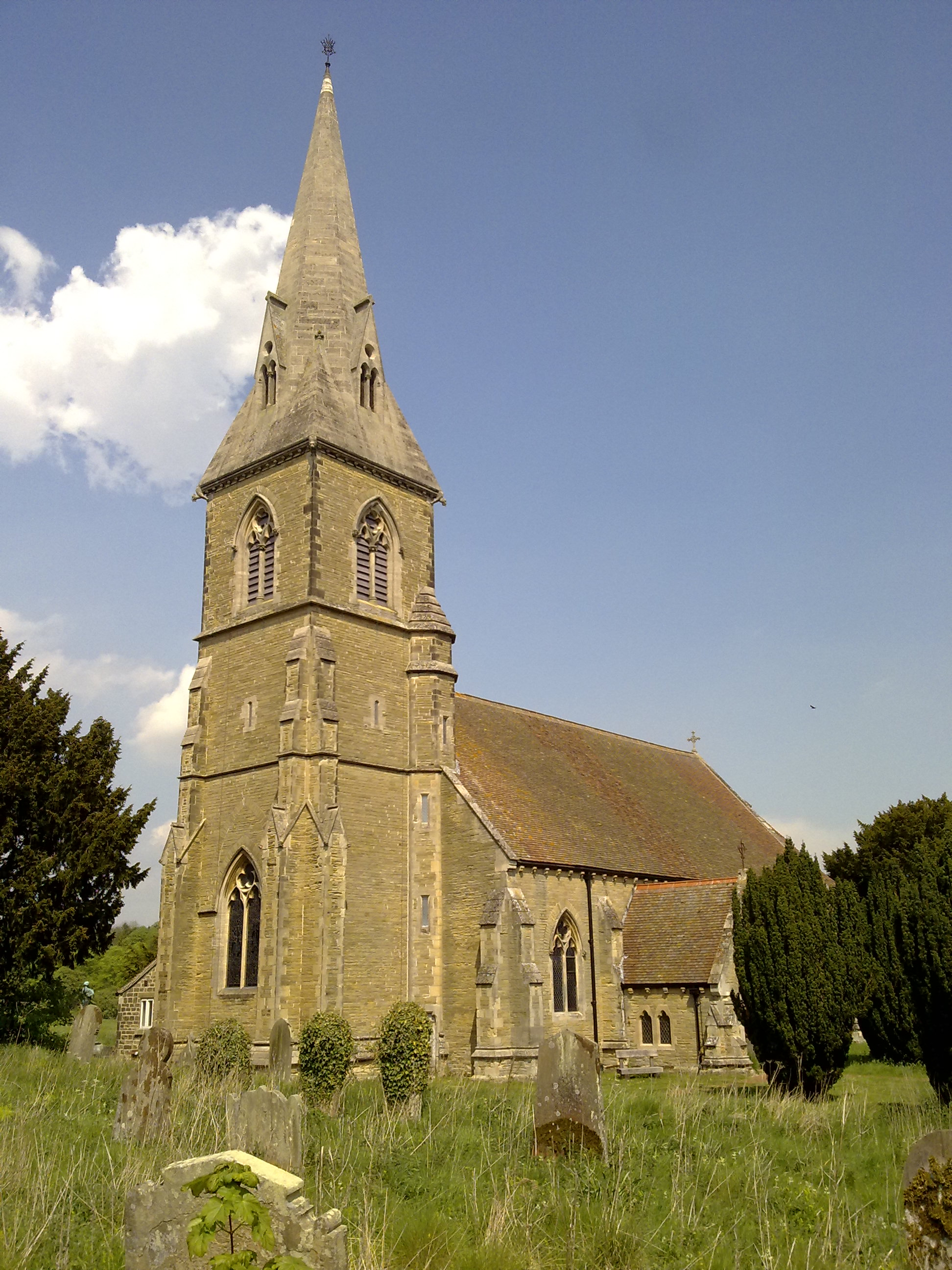 St James' parish church, Warter, East Riding of Yorkshire, England, seen from the southwest.